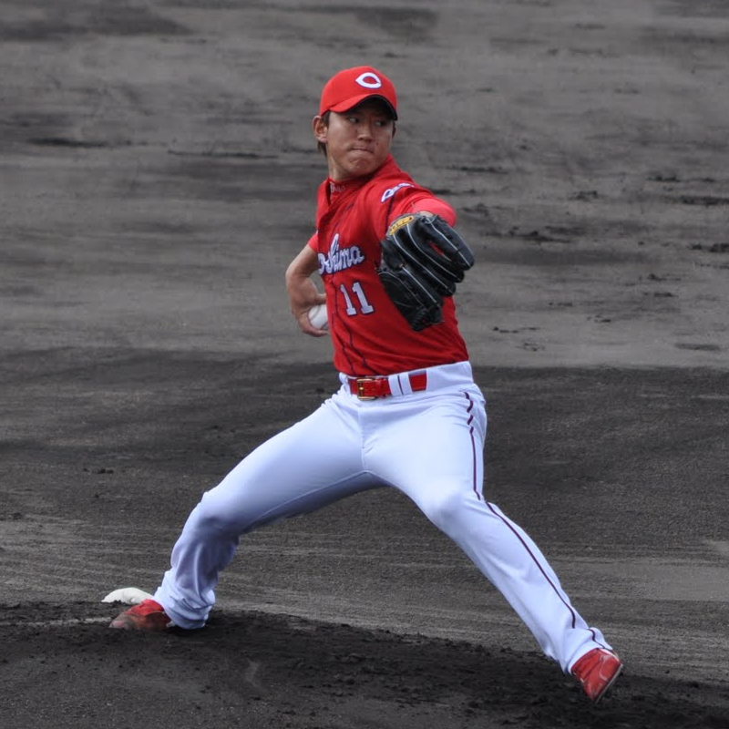 Yuya Fukui, pitcher of the Hiroshima Toyo Carp, at Okinawa Municipal Baseball Stadium.